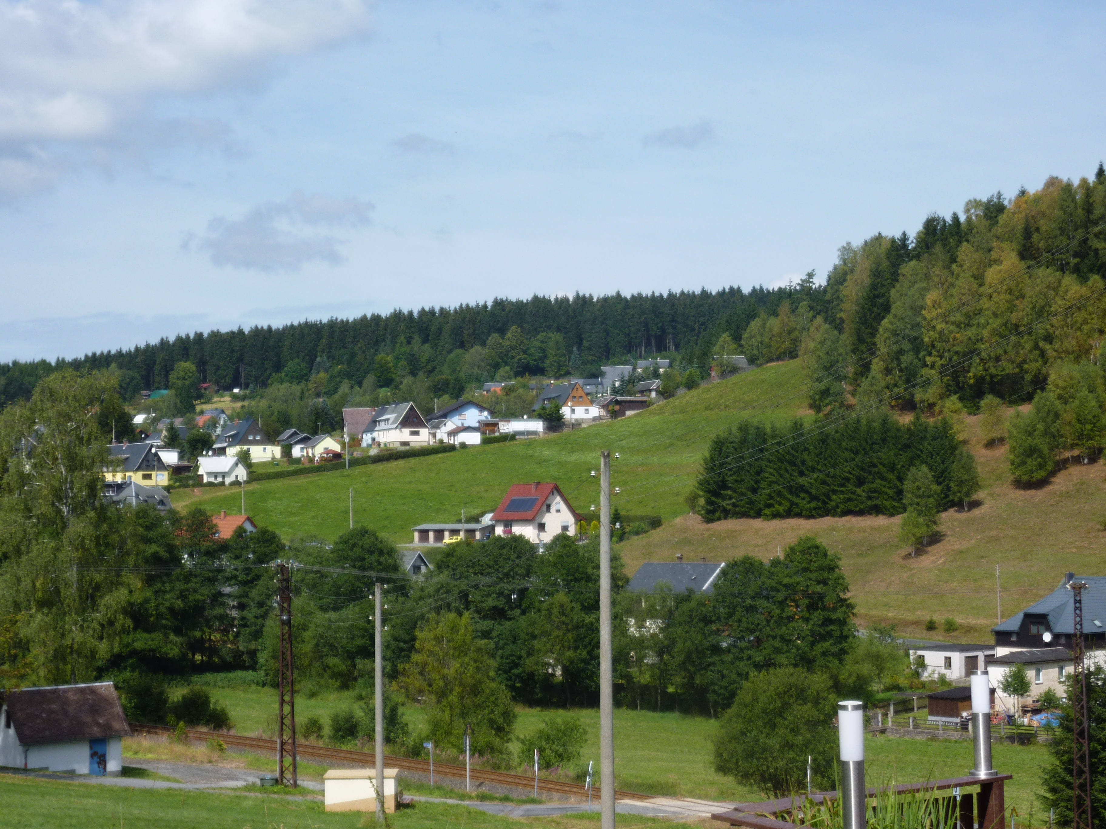 Zwota (Bergsiedlunng), Vogtland, Germany